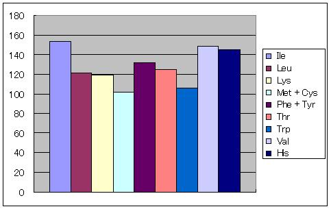 Amino acid score of common bean